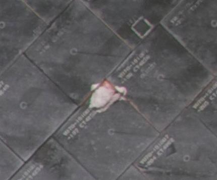 Damaged thermal tile on NASA Space Shuttle Endeavor, during mission STS-134.